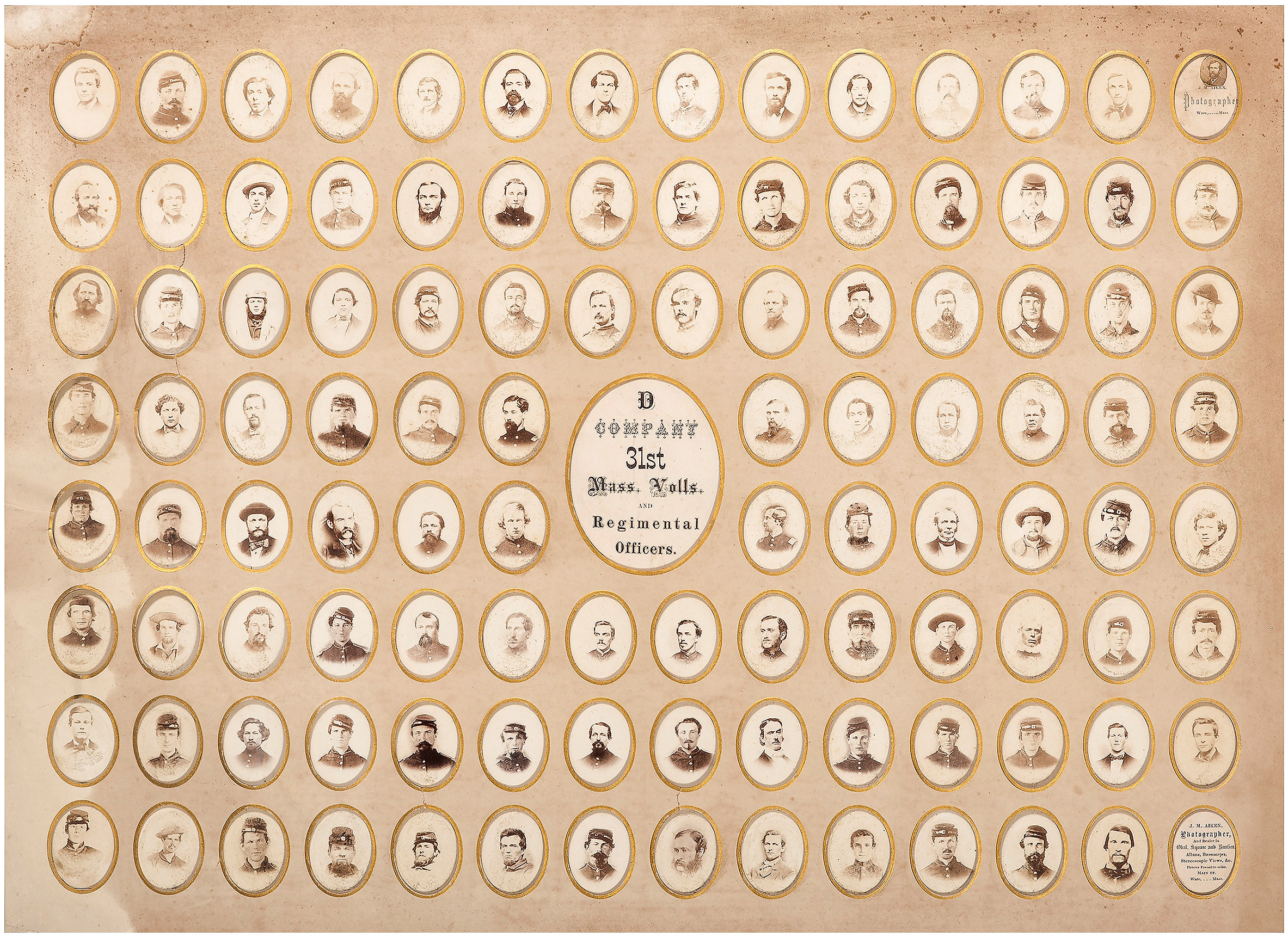 Group comprised of 107 individual albumen photographs of members of D Company, 31st Massachusetts Volunteers and Regimental Officers, and the photographer, J.M. Aiken, of Ware, MA.